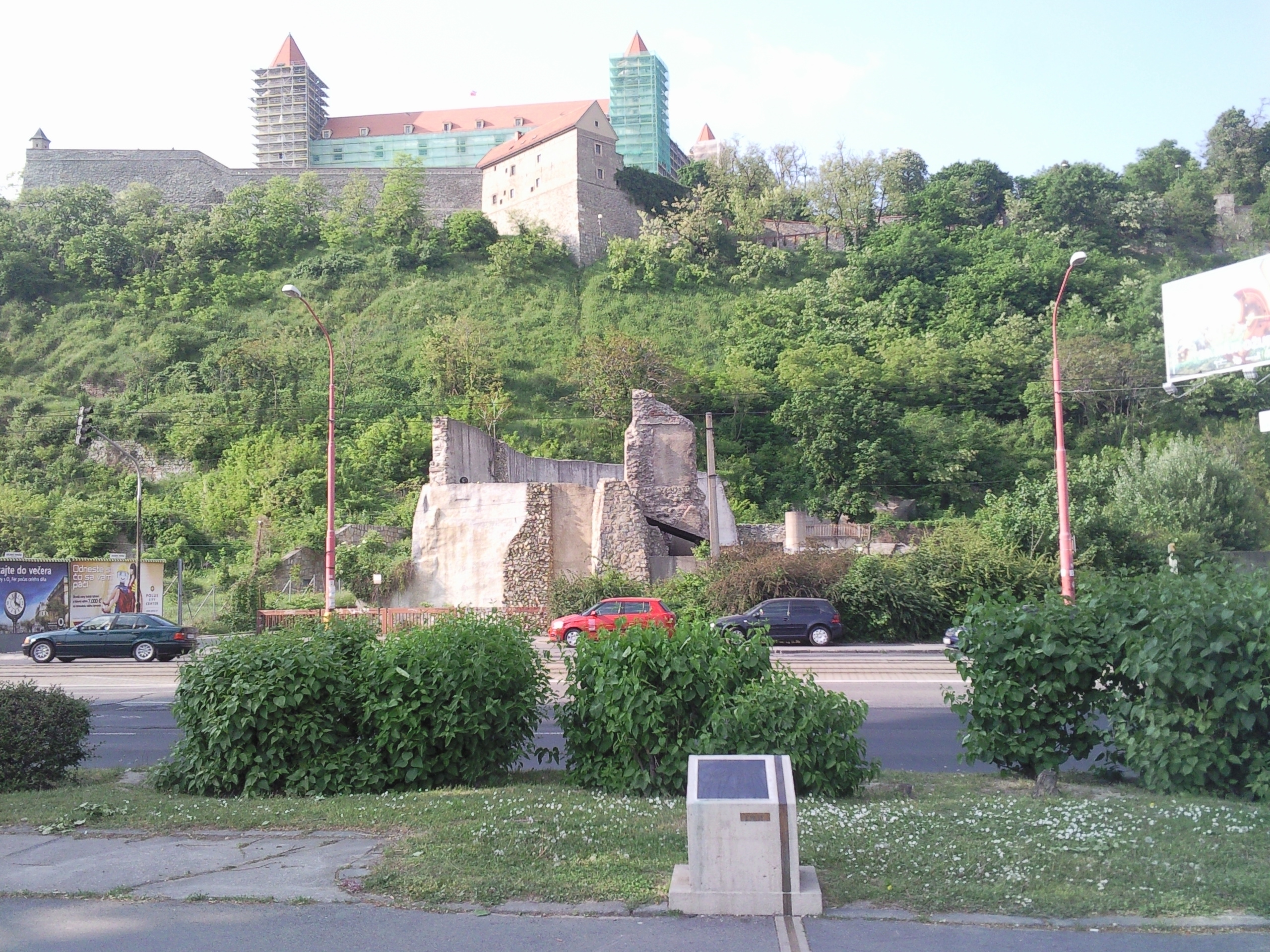 Bratislava meridian, established by Samuel Mikovíni